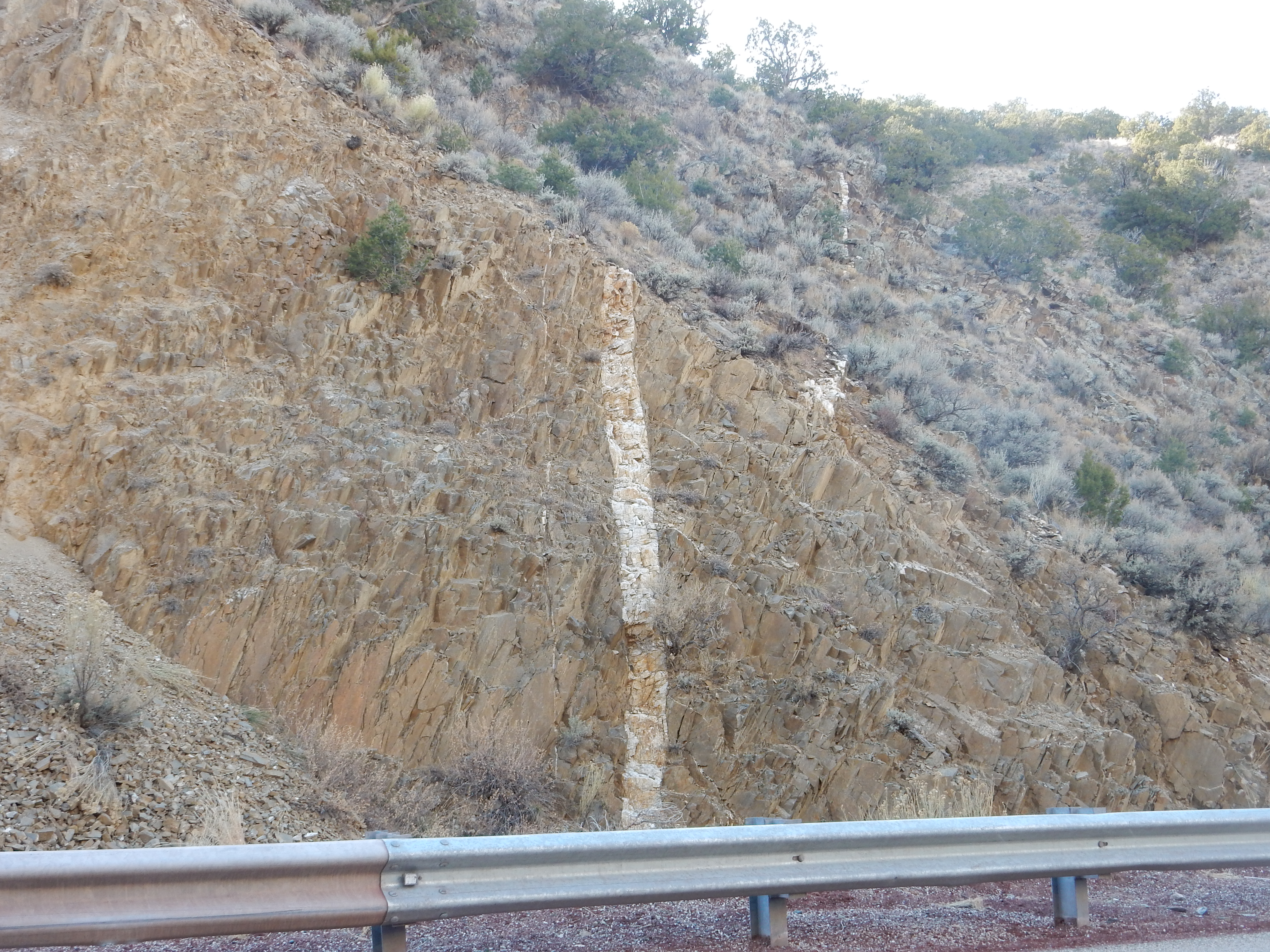 This image shows dirty quartzite of the Marquenas Formation, a Paleoproterozoic formation in the Picuris Mountains, New Mexico, United States. The quartzite is intruded by a simple pegmatite dike.